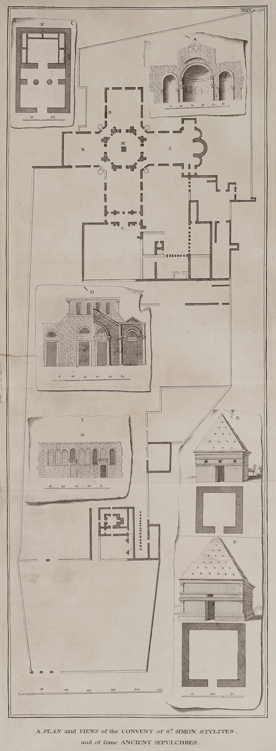 Richard Pococke. A Description of the East, and some other Countries, London, W. Bowyer, MDCCXLV (1743-1745)